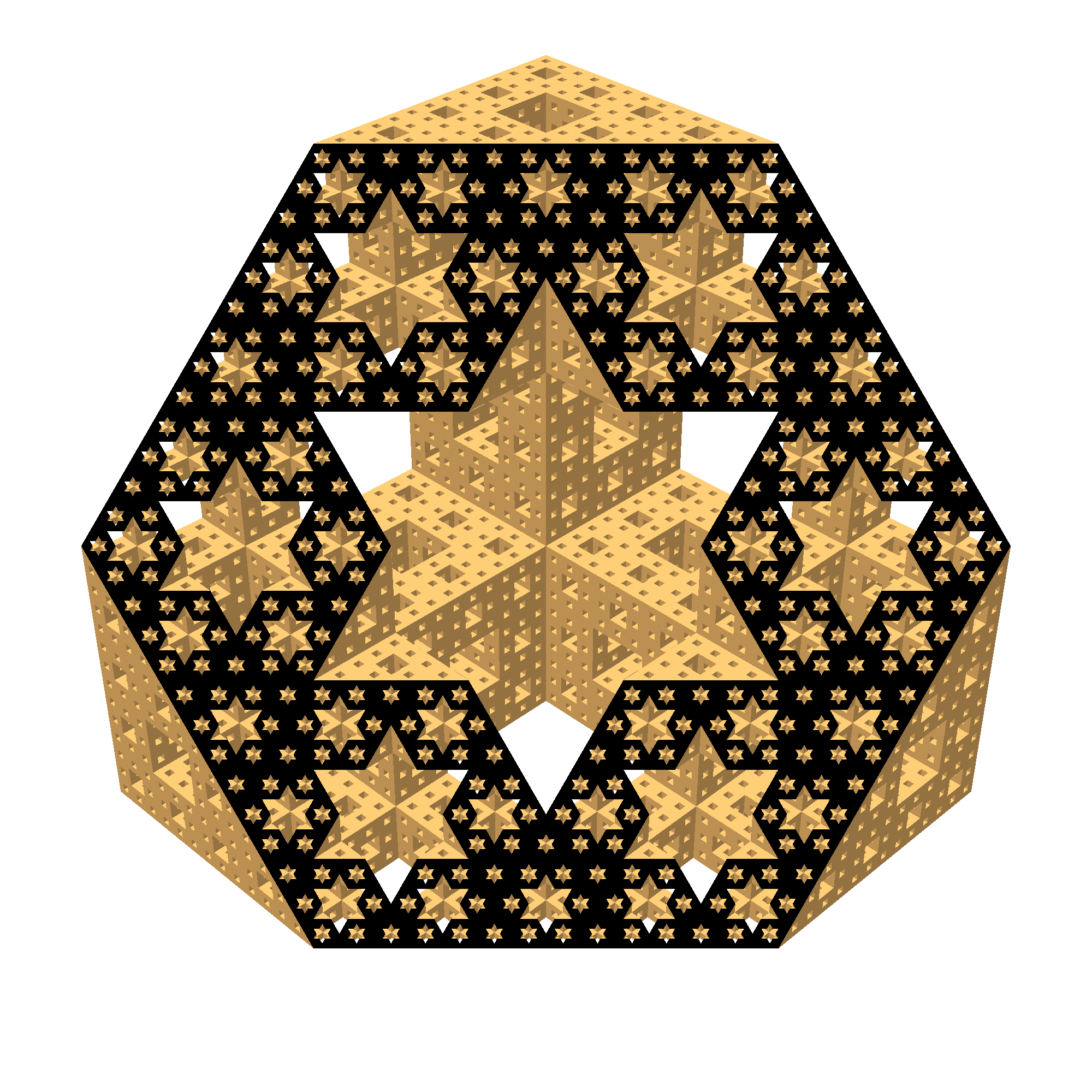 Cross-sections of a level-4 Menger sponge perpendicular to a space diagonal. The cross-section through its centroid comprises regular hexagrams arranged in six-fold symmetry. The cross-sections are true-view and to scale.